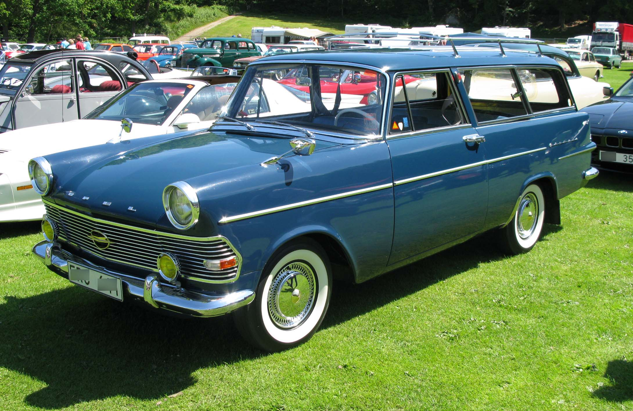 1962 Opel Olympia Caravan P2.Event: Nostalgia festival, Ronneby 2012